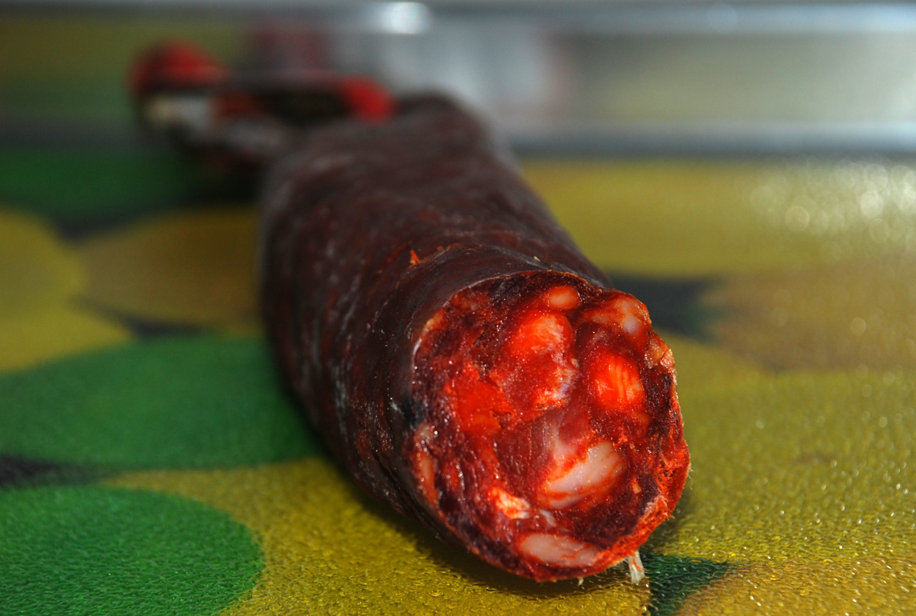 Spicy chorizo of San Andrés de Rabanedo (León, Castile and León).